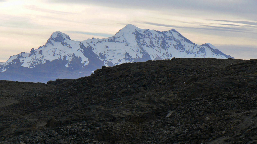 Volcano Solimana (Arequipa - Peru) belongs to the Cordillera de Ampato